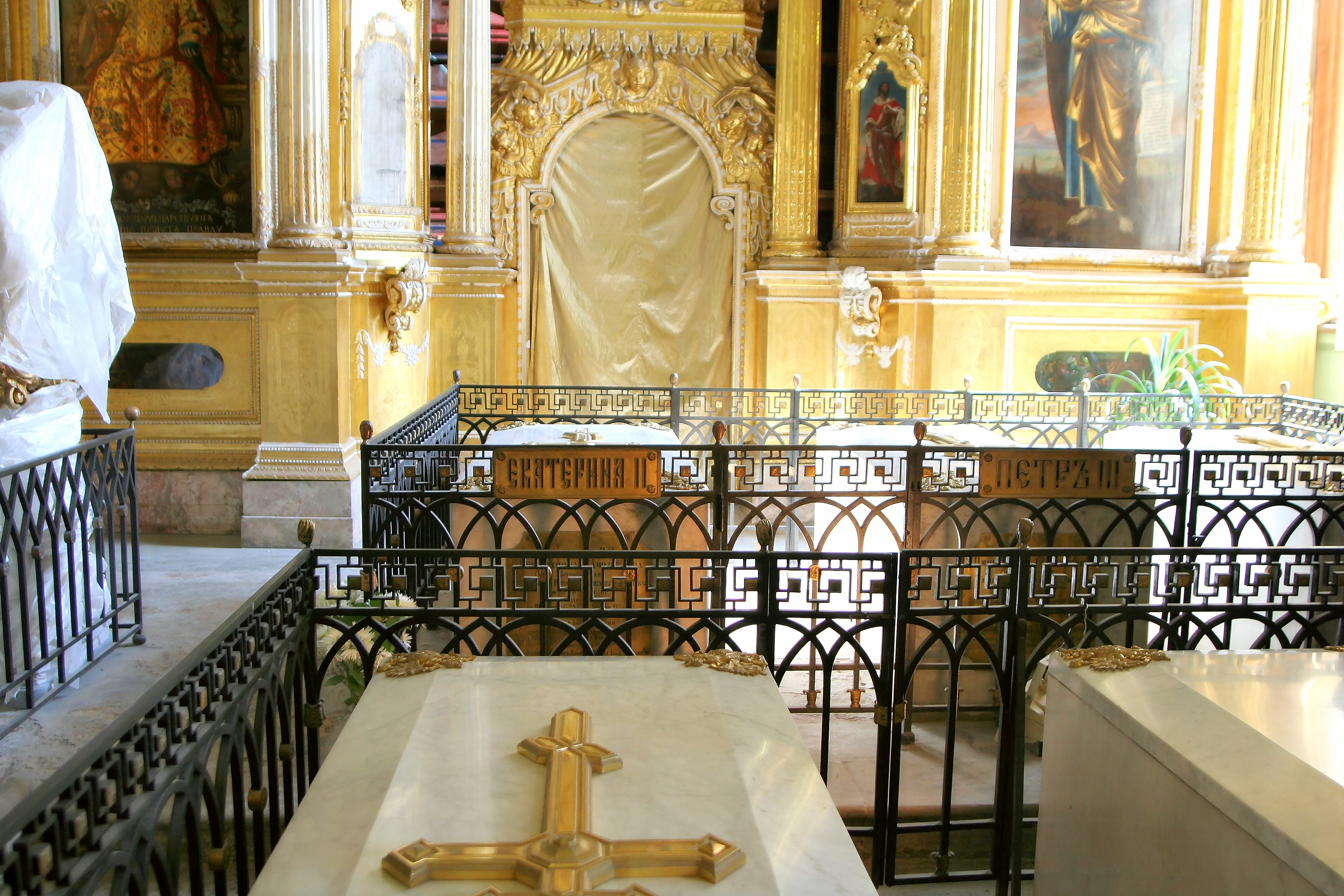 Peter and Paul cathedral, grave of Katharina II